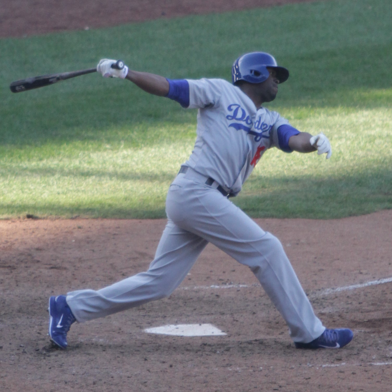 Roger Bernadina for the Los Angeles Dodgers against the Chicago Cubs at Wrigley Field.